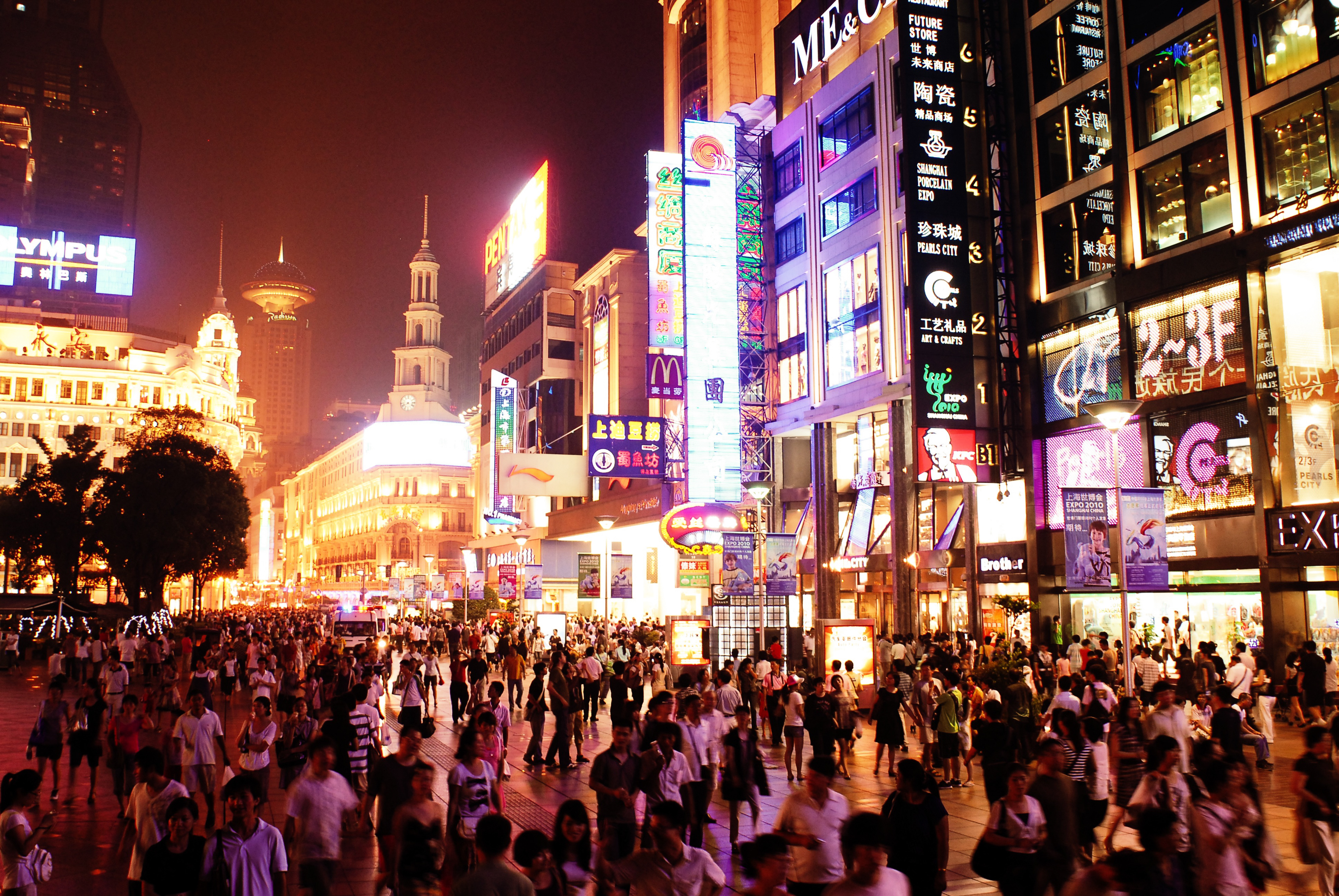 Streets of Shanghai at night, China, East Asia.